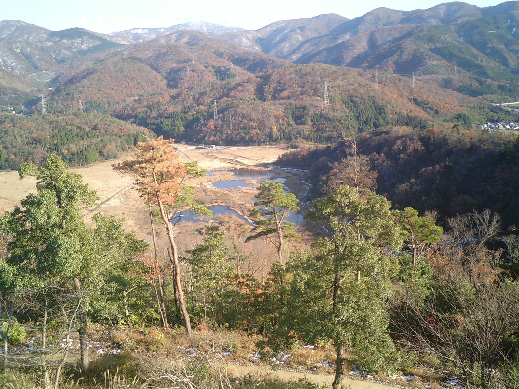 The image of Nakaikemi wetlands in Tsuruga.